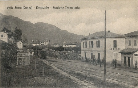 Demonte, steam tram station